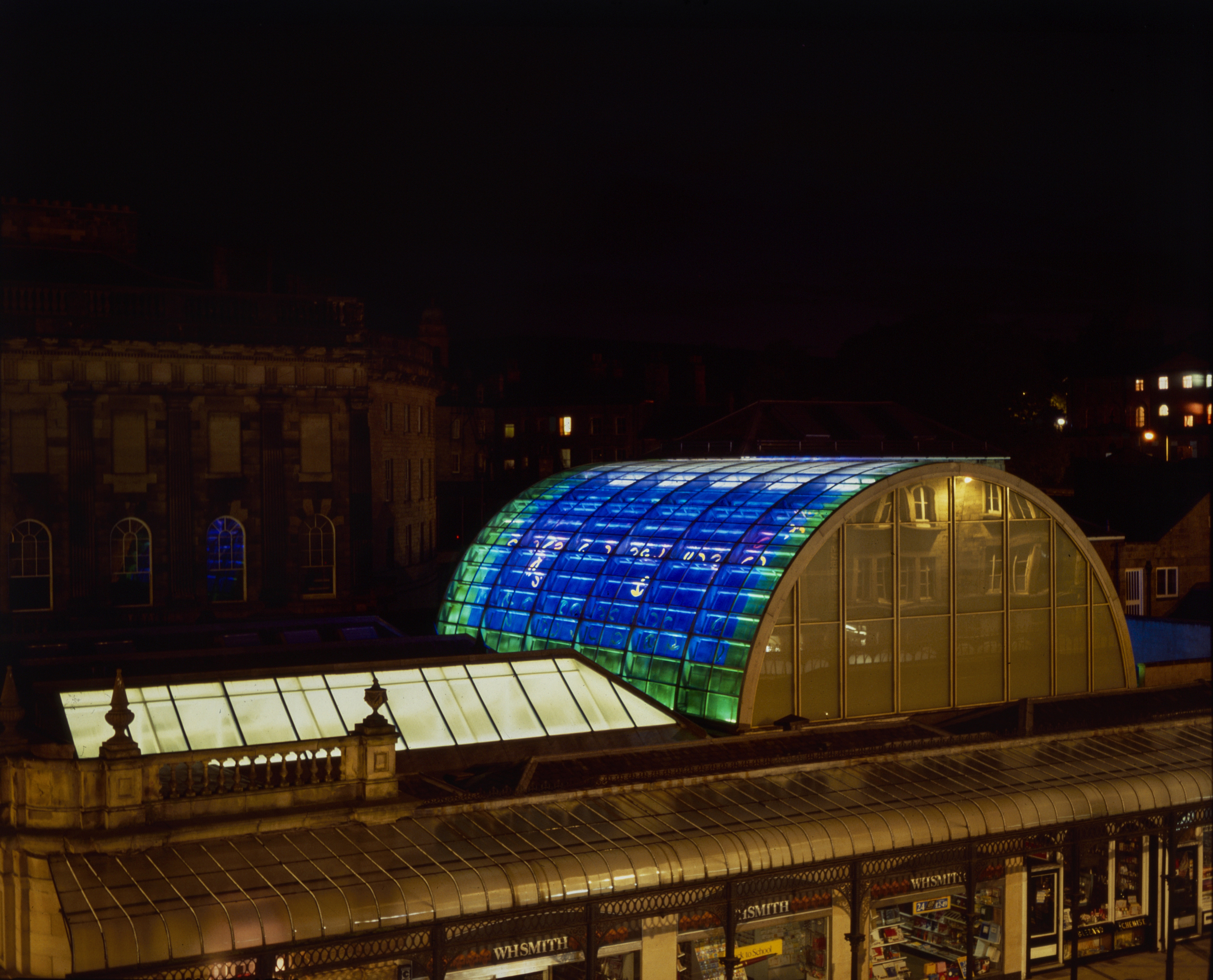 Nocturnal view of the barrel-vaulted stained glass ceiling of the Cavendish Arcade, Britain's largest stained glass window, by Brian Clarke at the restored Buxton Thermal Baths.